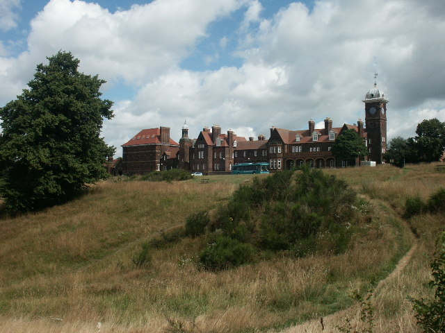 Norwich Prison. Seen from St James Hill, a popular city vantage point. The prison is on the edge of Mousehold Heath. This part of the prison site is the former Britannia Barracks of the Royal Norfolk Regiment